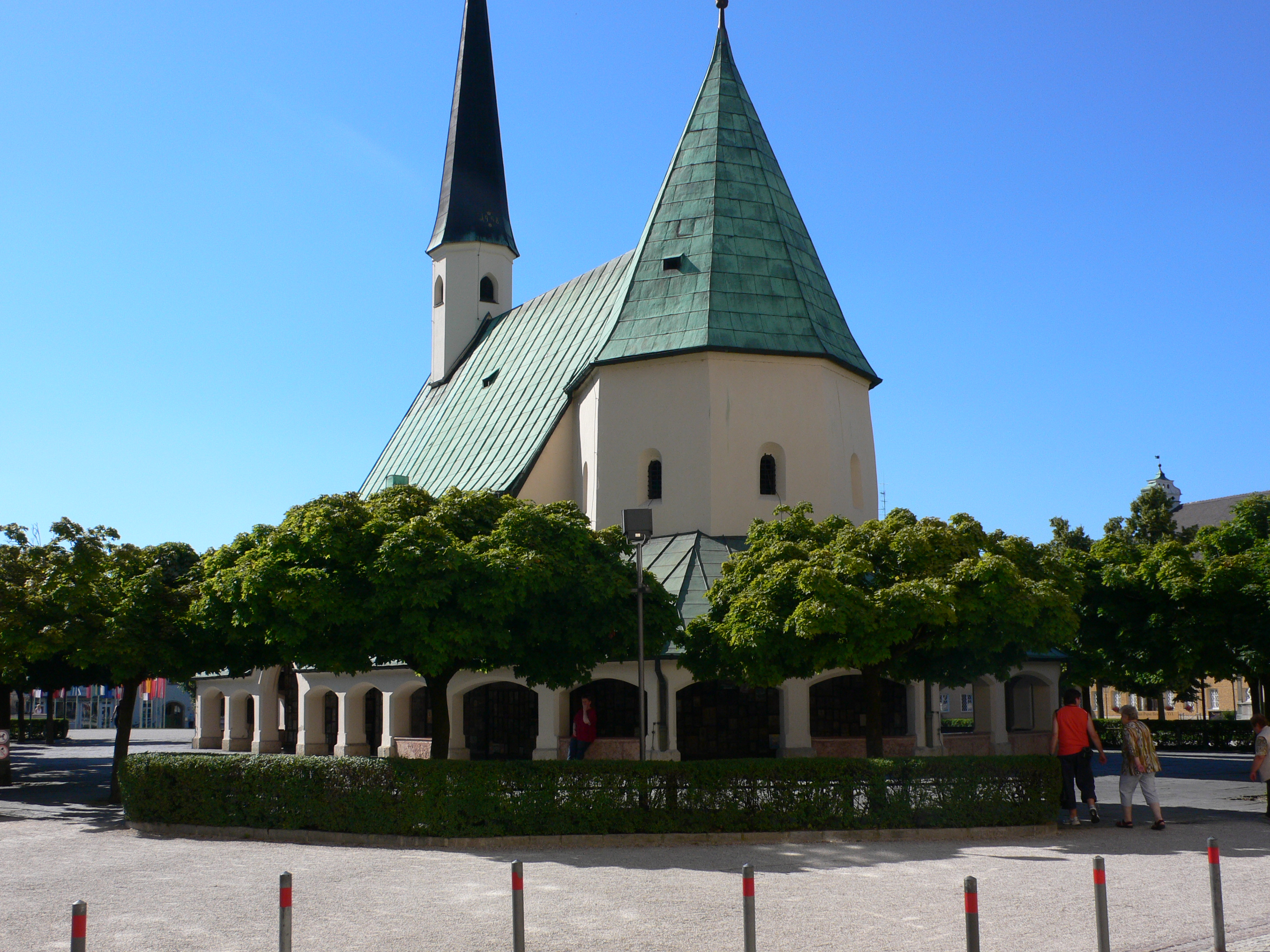 This photo links to my blog article This photo is licenced under Creative commons for use including commercial on condition that you link back to or credit See my profile for more detail.